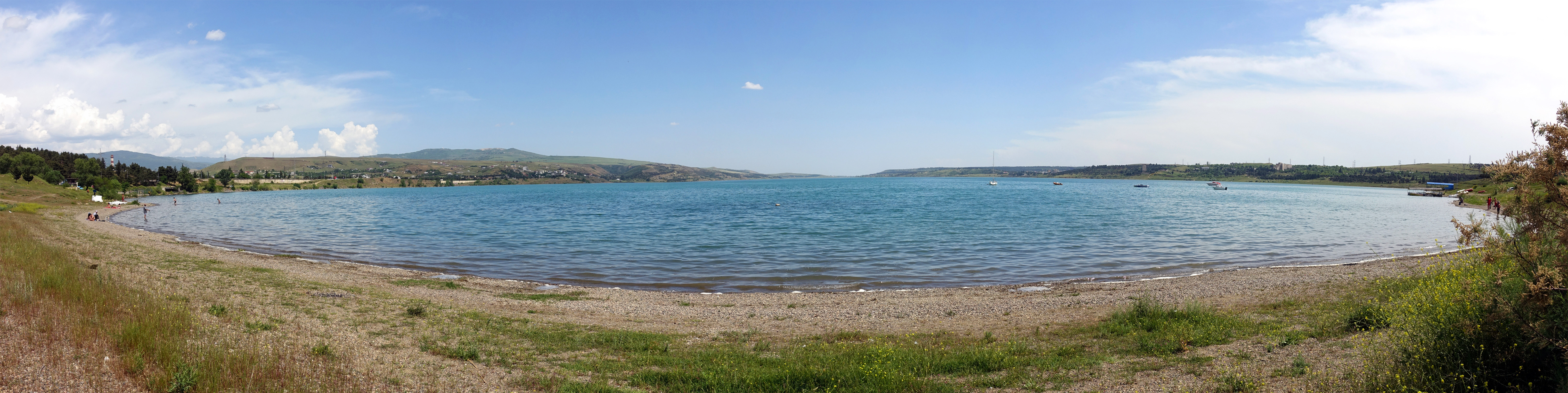 Tbilisi Sea in May 2018, Georgia.